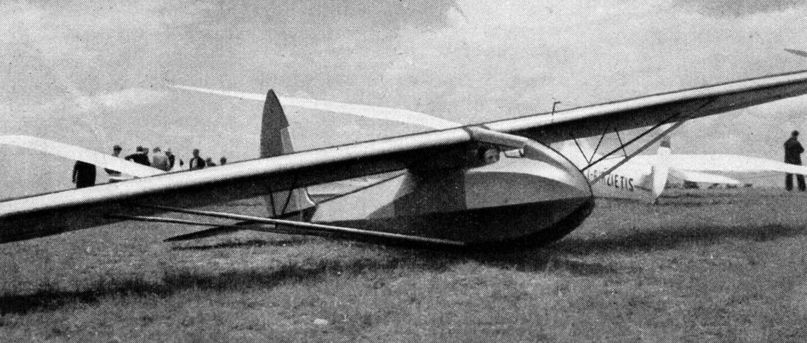 Schutz ABC photo from L'Aerophile April 1938